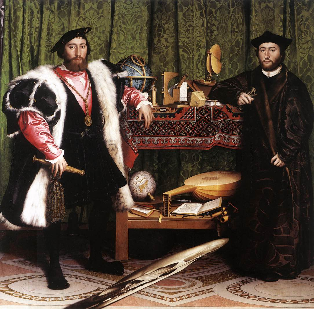 Holbein painted this work in the early part of his second stay in England, which began in 1532. At this time he was prolific, painting Hanseatic merchants, courtiers, landowners, and visitors. The Ambassadors is his most famous and perhaps greatest painting of this period. The life-sized panel portrays Jean de Dinteville, an ambassador of Francis I of France in 1533, and Georges de Selve, Bishop of Lavaur, who visited London the same year. Until the publication of Mary F. S. Hervey's Holbein's Ambassadors: The Picture and the Men in 1900, the identity of the two figures in the picture had been a matter of intense debate. In 1890, Sidney Colvin was the first to propose the figure on the left as Jean de Dinteville, Seigneur of Polisy (1504–1555), French ambassador to the court of Henry VIII for most of 1533. Shortly afterwards, the cleaning of the picture revealed his seat of Polisy as one of only four places marked on the globe. Hervey identified the man on the right as Georges de Selve (1508/09–1541), Bishop of Lavaur, after tracing the painting's history back to a 17th-century manuscript. Hervey's identification of the sitters has remained the standard one, affirmed in several extended studies of the painting. However, rival speculation is not entirely dead. Opposition to the identification of de Selve has been based on an inventory of 1589, discovered by Riccardo Famiglietti, which names the man on the right as de Dinteville's brother François. Leading scholars of the painting argue that this identification of 1589 was incorrect.